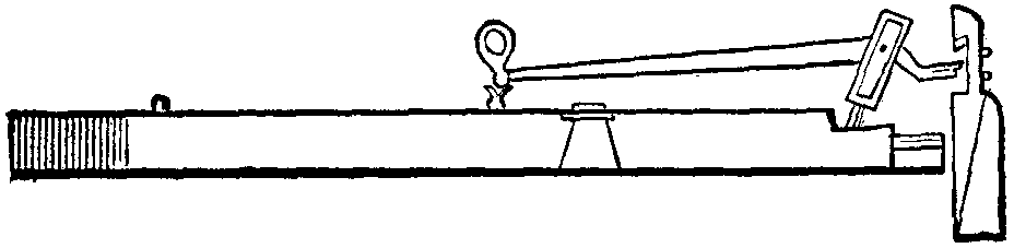 Johann Andreas Stein's piano action of 1780 (the earliest so-called Viennese).